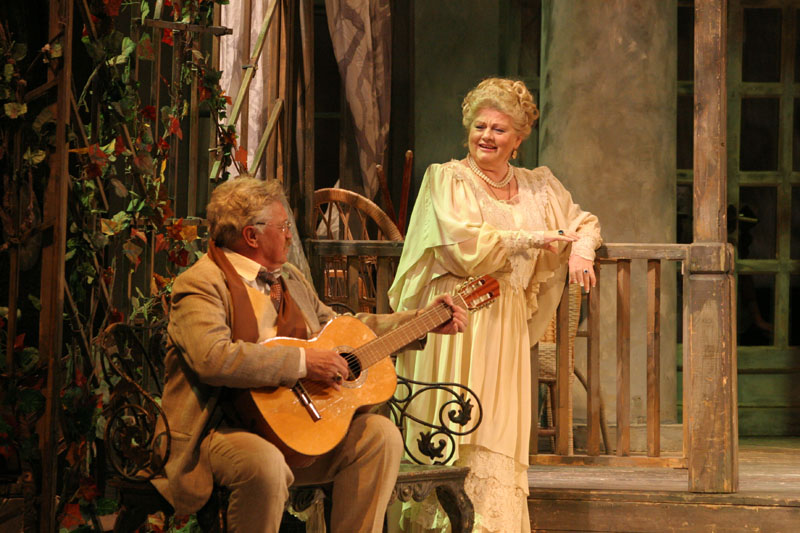 A scene from the play Maly Theatre «Seagull»